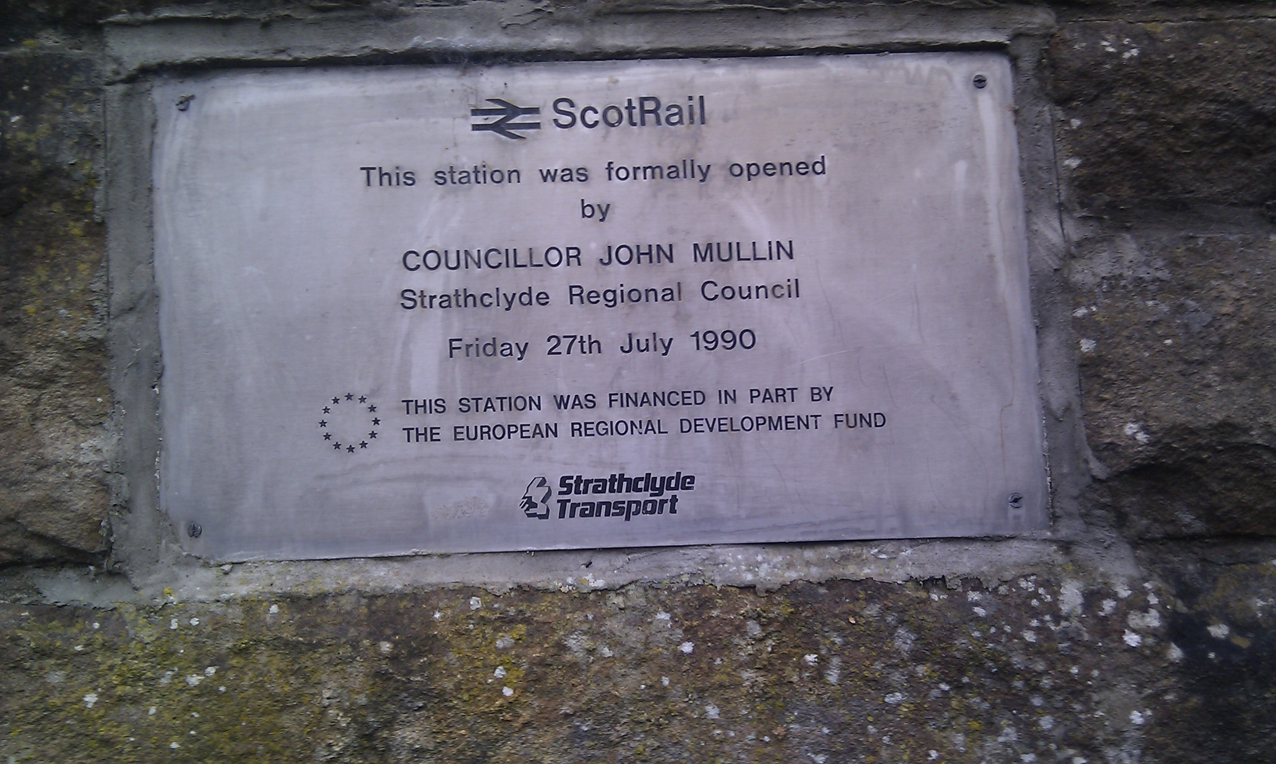 Plaque at Paisley Canal station commemorating the 1990 re-opening of the Paisley Canal branch line, East Renfrewshire, Scotland